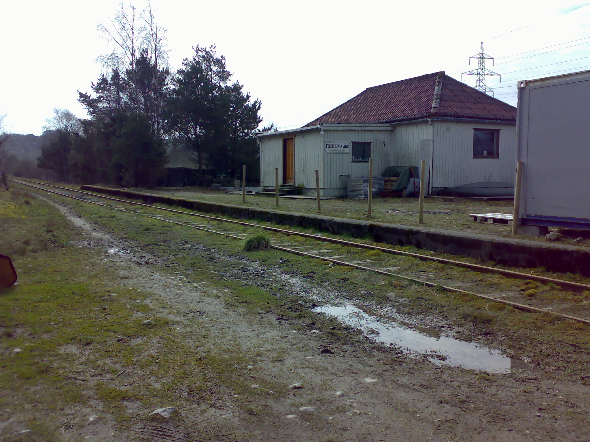 Foss-Eikeland Station, on the disused Ålgårdbanen, in Rogaland, Norway.